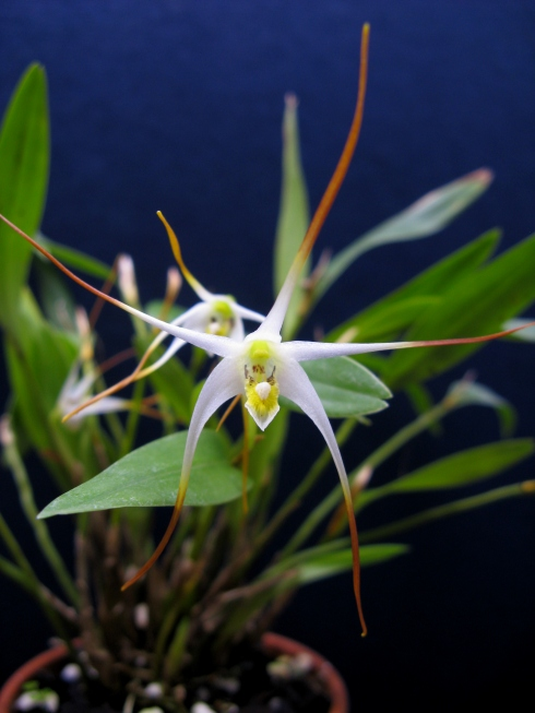 Flower of Diplocaulobium validicolle